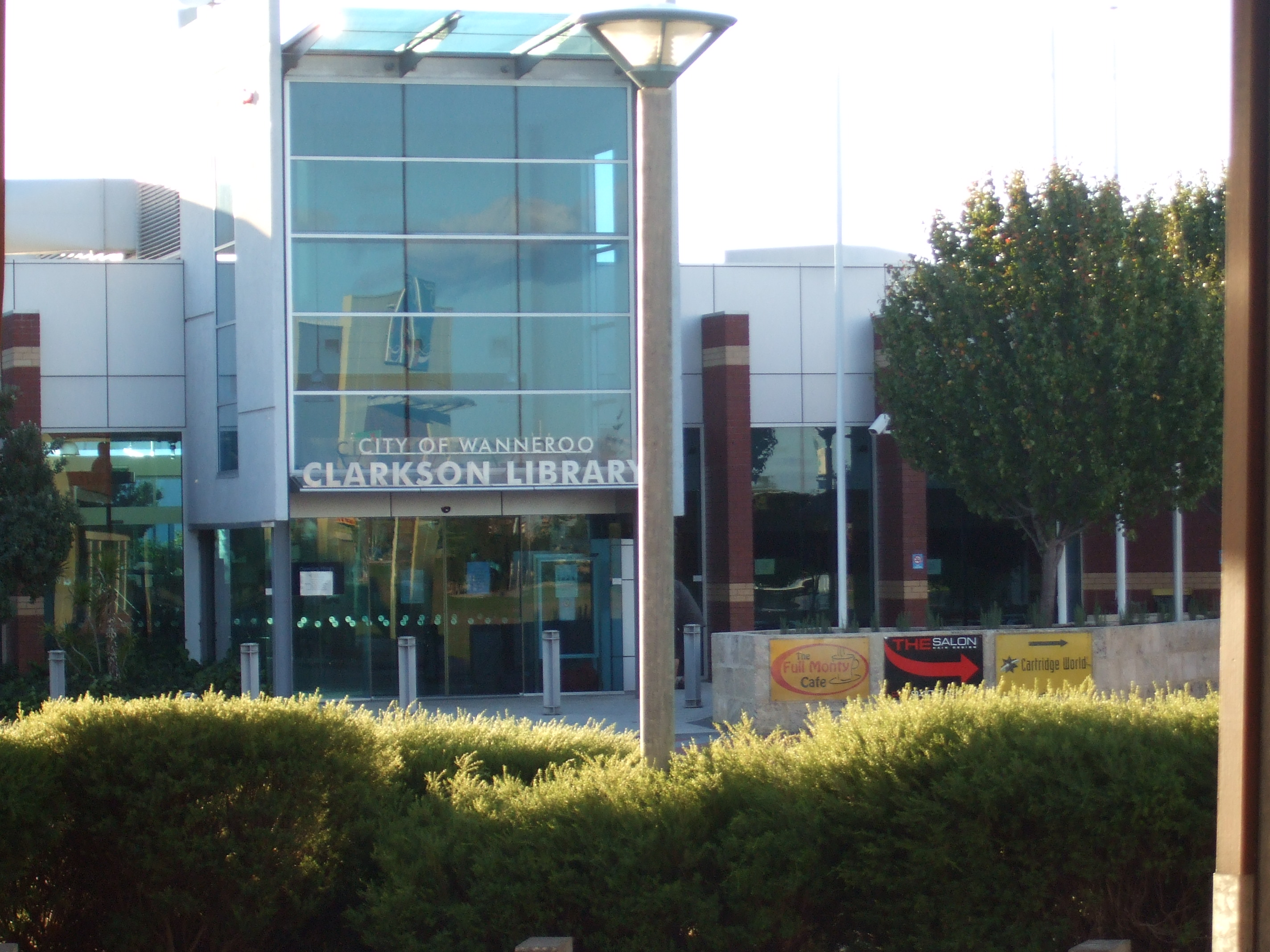 Clarkson Library, Ocean Keys Boulevard, Clarkson, WA. Clarkson Library, Ocean Keys Boulevard, Clarkson, WA.